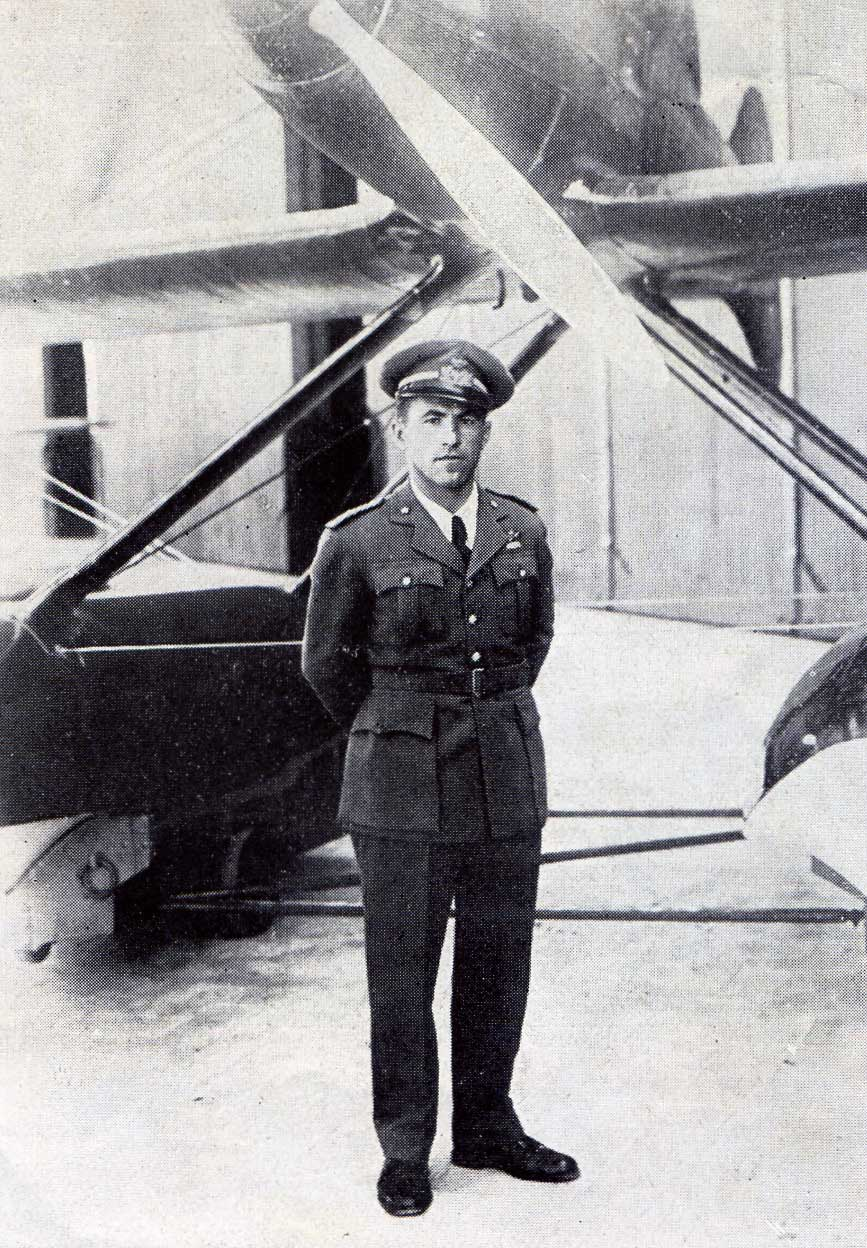 Sea Plane Manufactured by Macchi, which Establishded the New Speed Record.